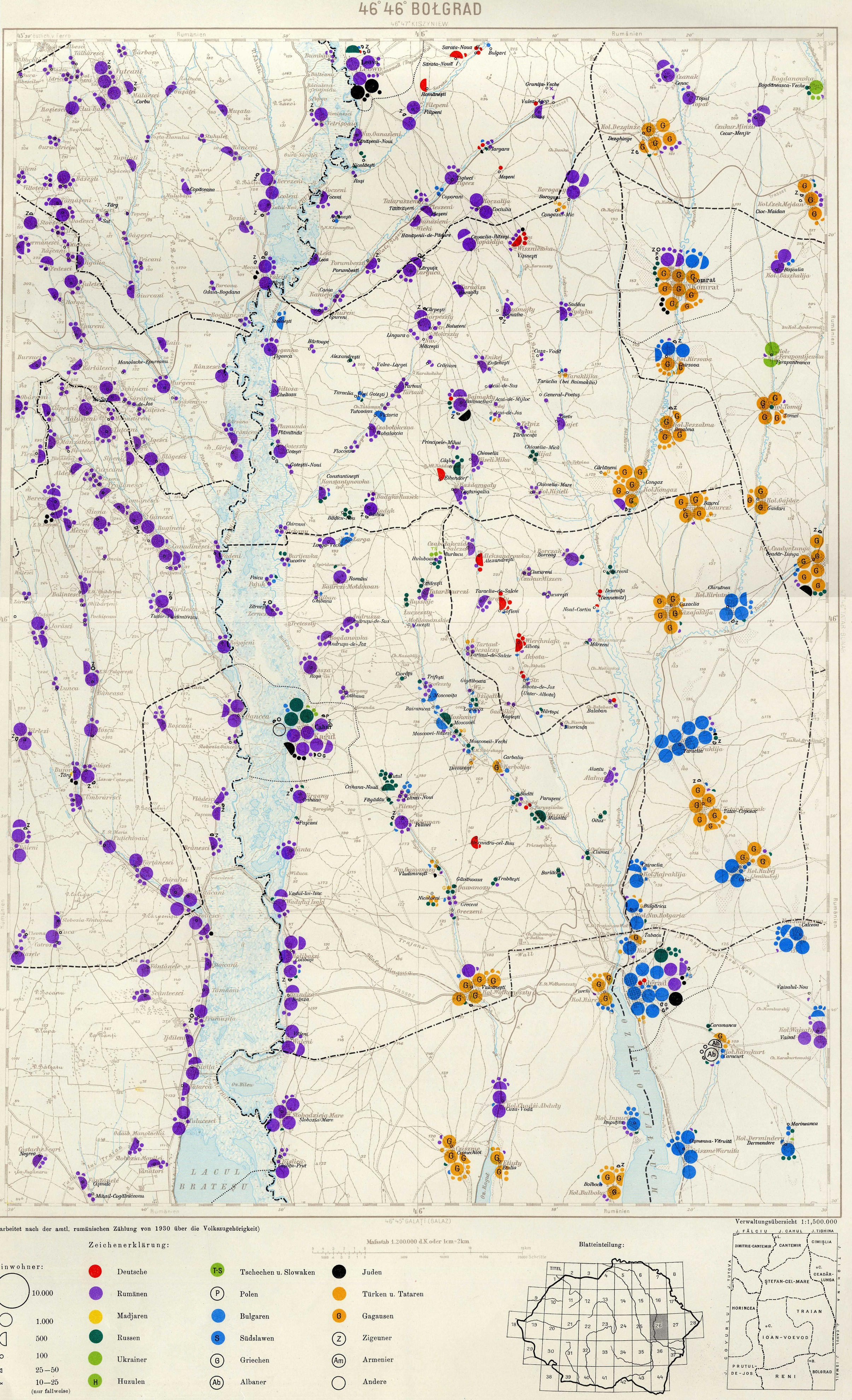 Ethnic map (of this map) according to the Romanian census 1930.